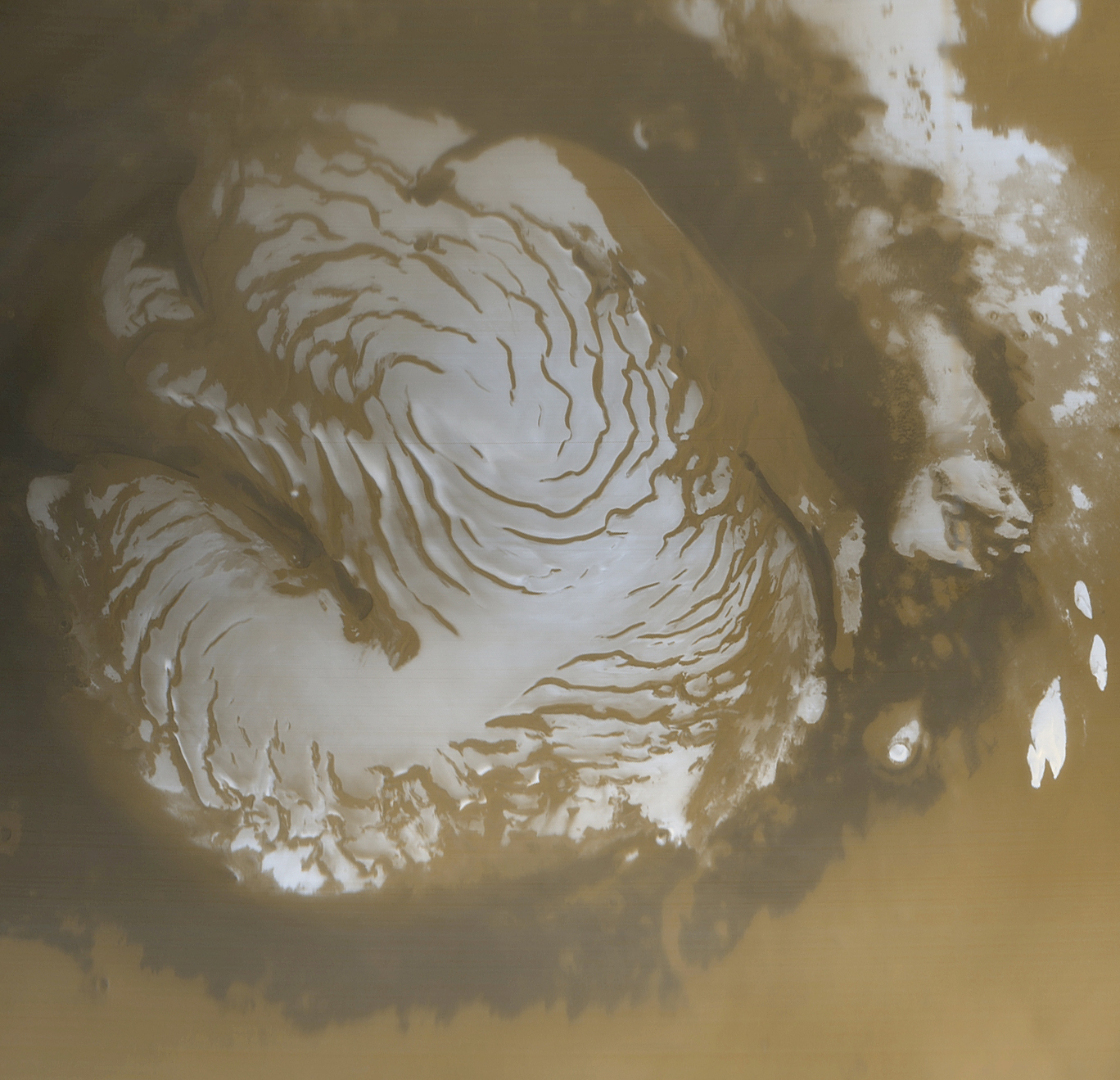 The Mars Global Surveyor (MGS) Mars Orbiter Camera (MOC) acquired this image of the Martian north polar cap in early northern summer. The picture was acquired on March 13, 1999, near the start of the Mapping Phase of the MGS mission. The light-toned surfaces are residual water ice that remains through the summer season. The nearly circular band of dark material surrounding the cap consists mainly of sand dunes formed and shaped by wind. The north polar cap is roughly 1100 kilometers (680 miles) across.